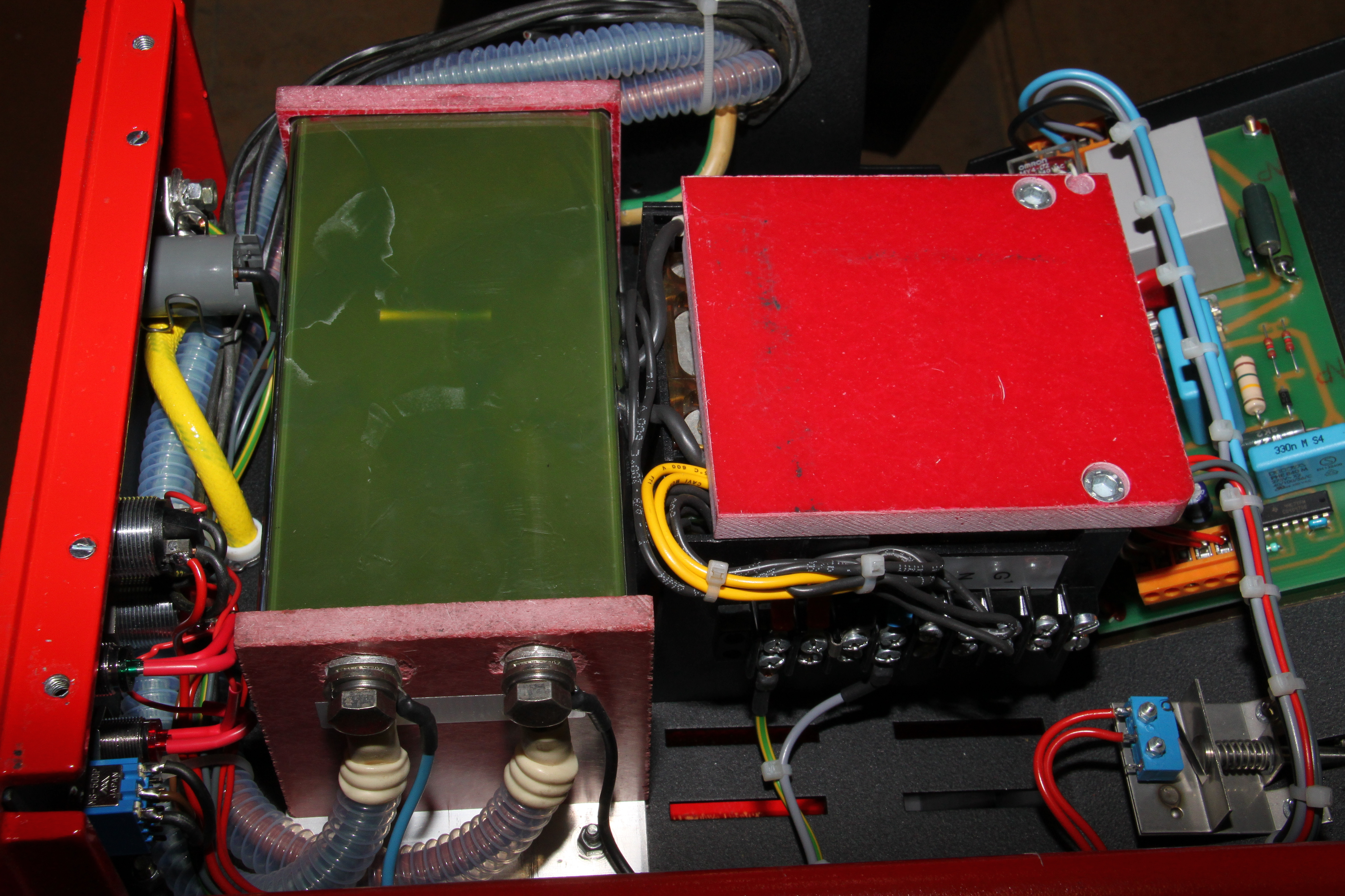 Hight voltage ignition circuit (70 kV) for HMI lamps (Hydrargyrum medium-arc iodide lamps) 12 and 18 kW.